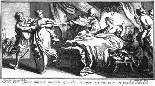 Death of Louis VIII King of France 1226 in Montpensier Castle